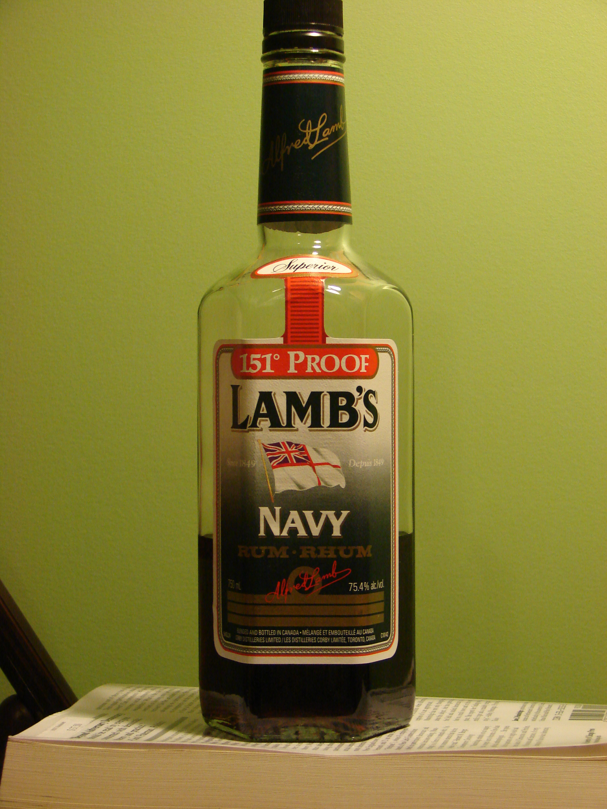 Lamb's Navy overproof rum, 151 proof, 75.4% alcohol, dark rum, blended and bottled in Canada by Corby Distilleries (Toronto), purchased for $31 (Canadian). rhum